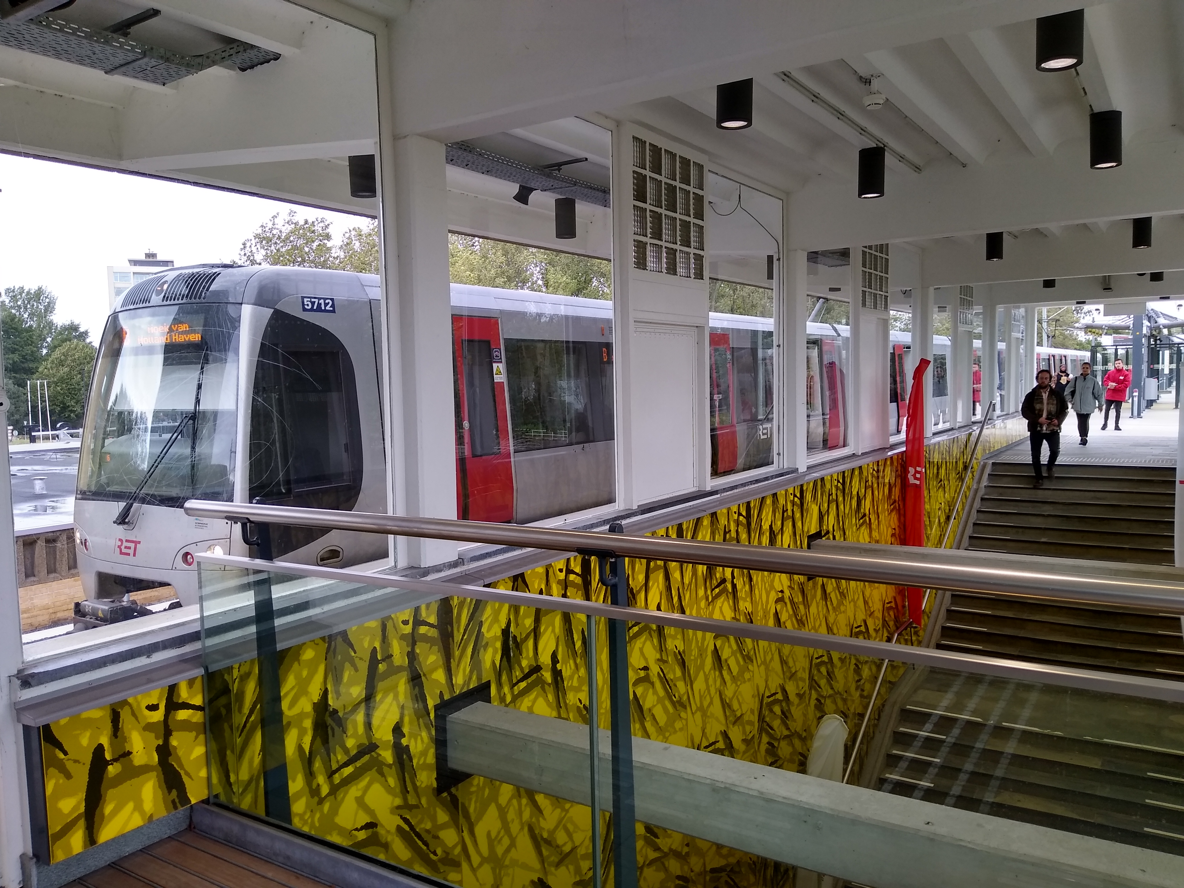 Station Vlaardingen Oost on preview day, 28 September 2019.